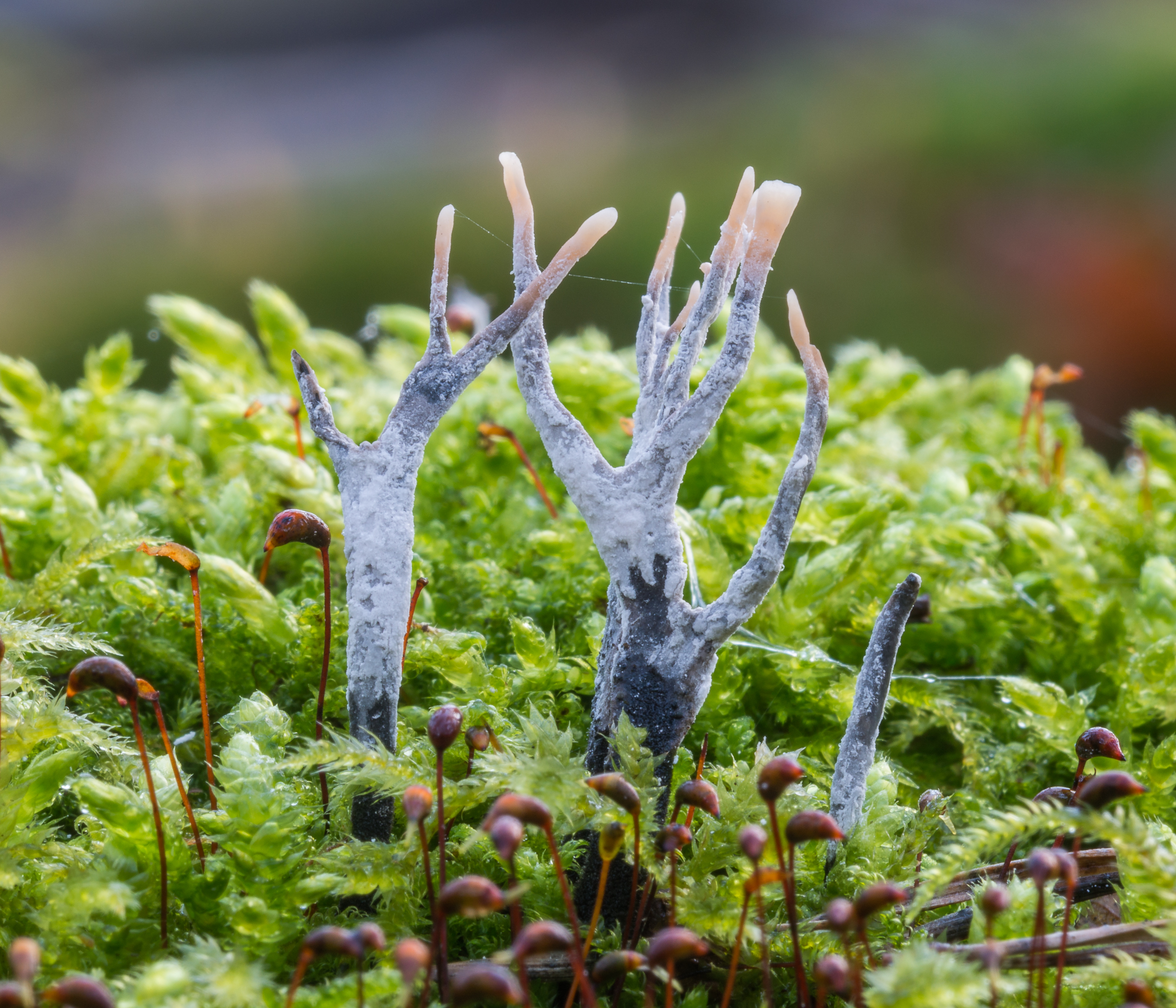 Stagshorn or Candlesnuff fungus (Xylaria hypoxylon) among moss, Hesse, Germany.